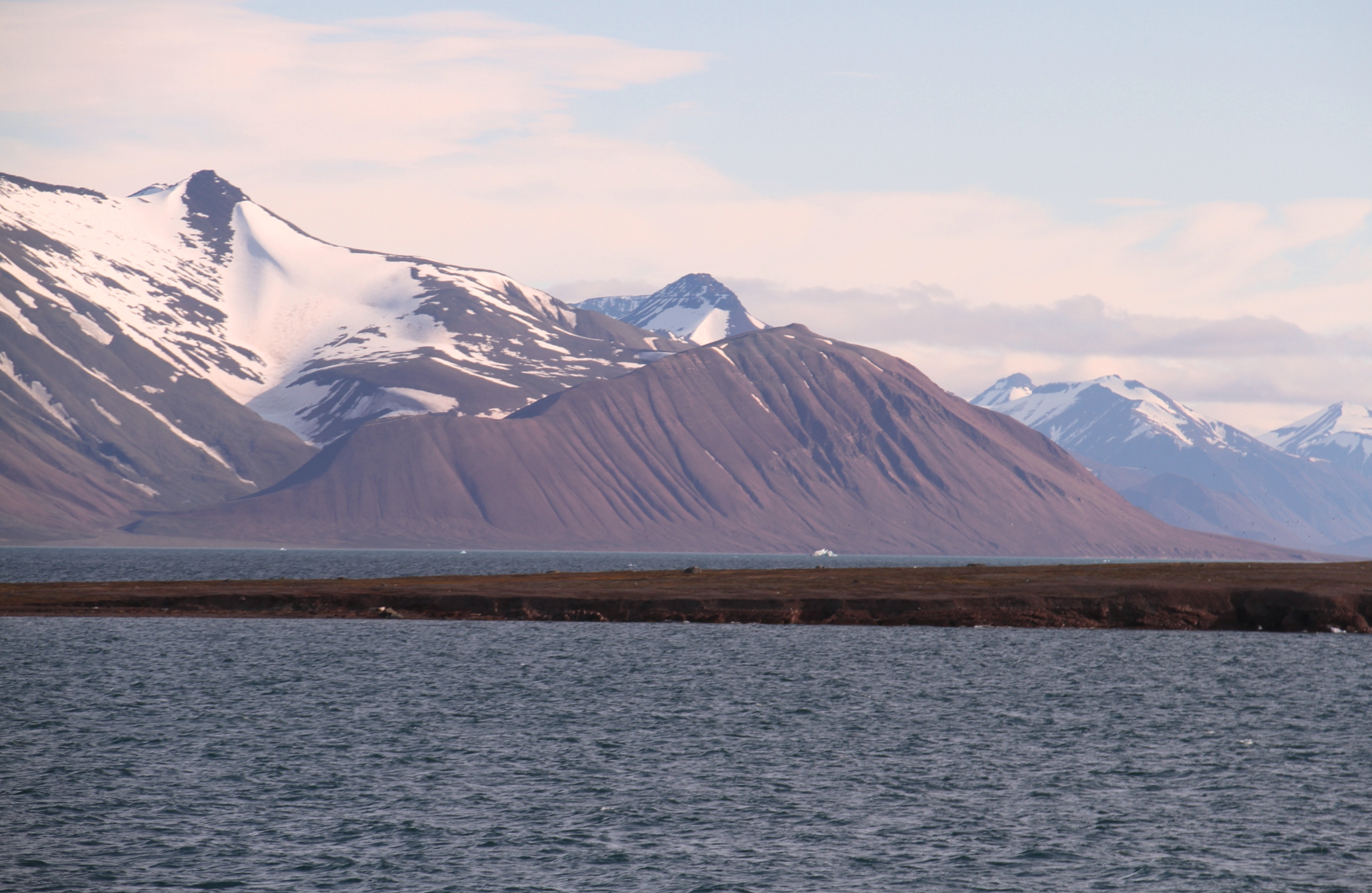 Western part of Andree land, along the eastern woodfjorden coast, northern Spitsbergen, Svalbard.